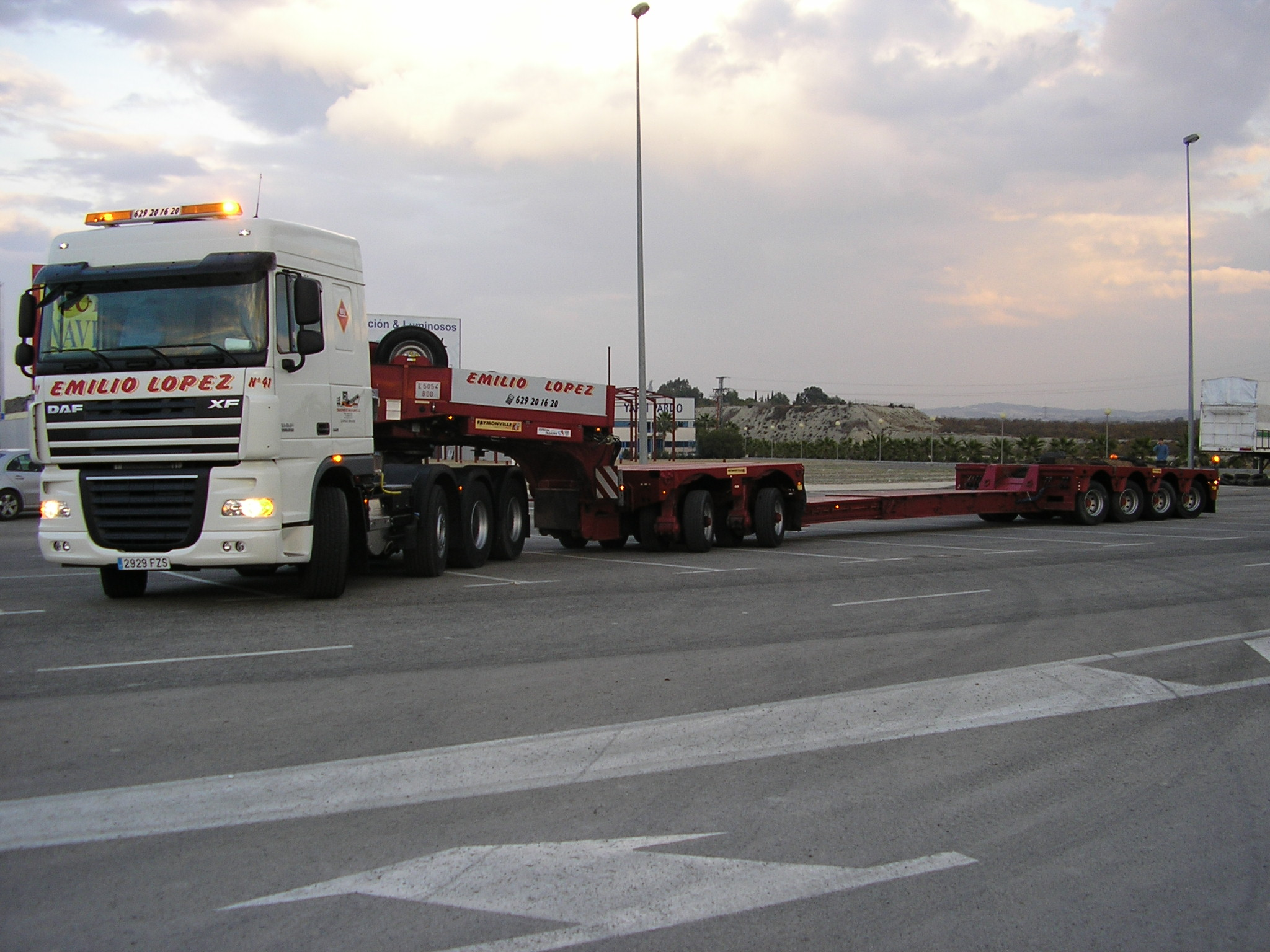 DAF XF 105.510 SC 8x4 FTM